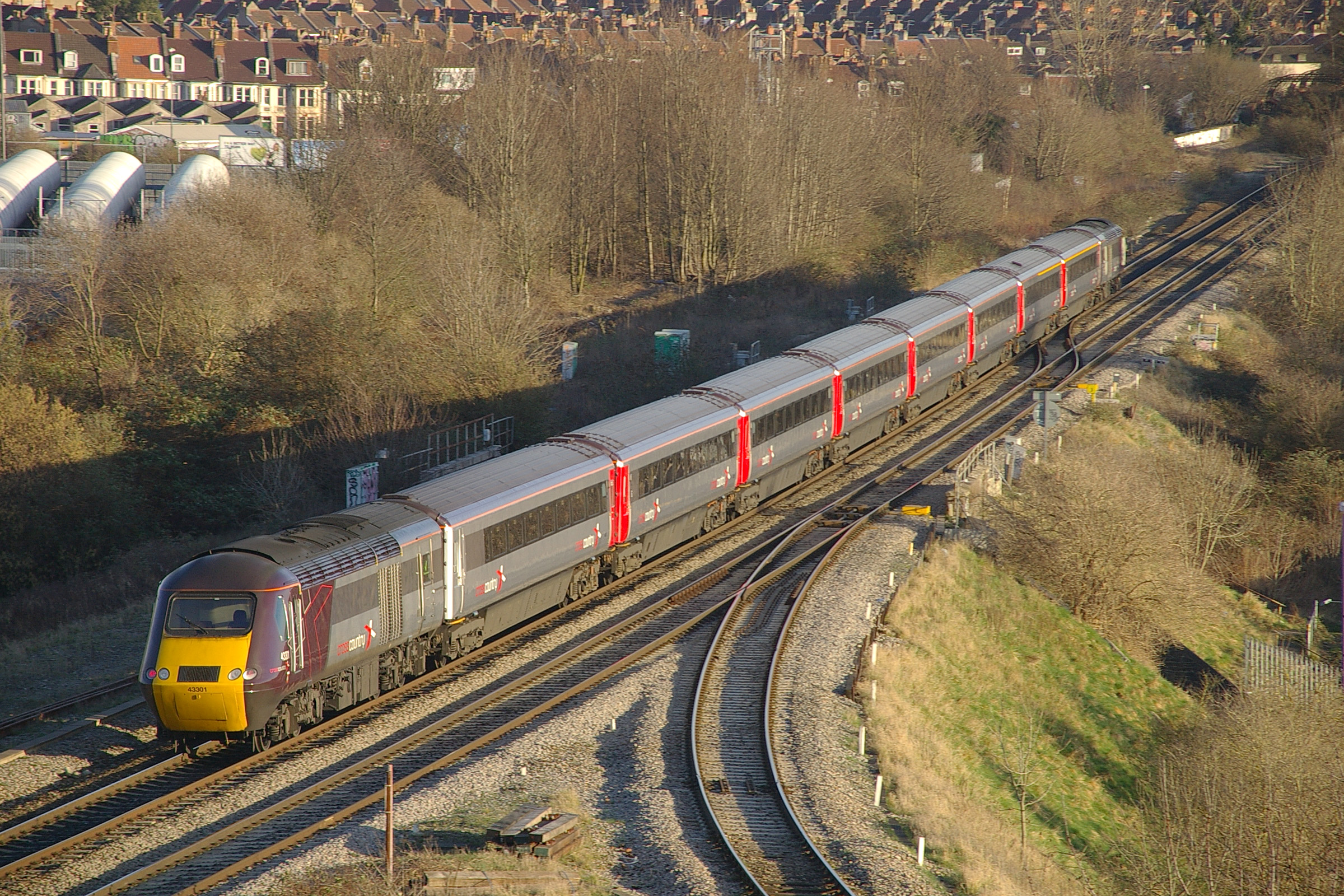 A Cross-Country intercity 125 (including 43301) passes Narroways Junction between the Severn Beach Line and the Bristol to Gloucester line.